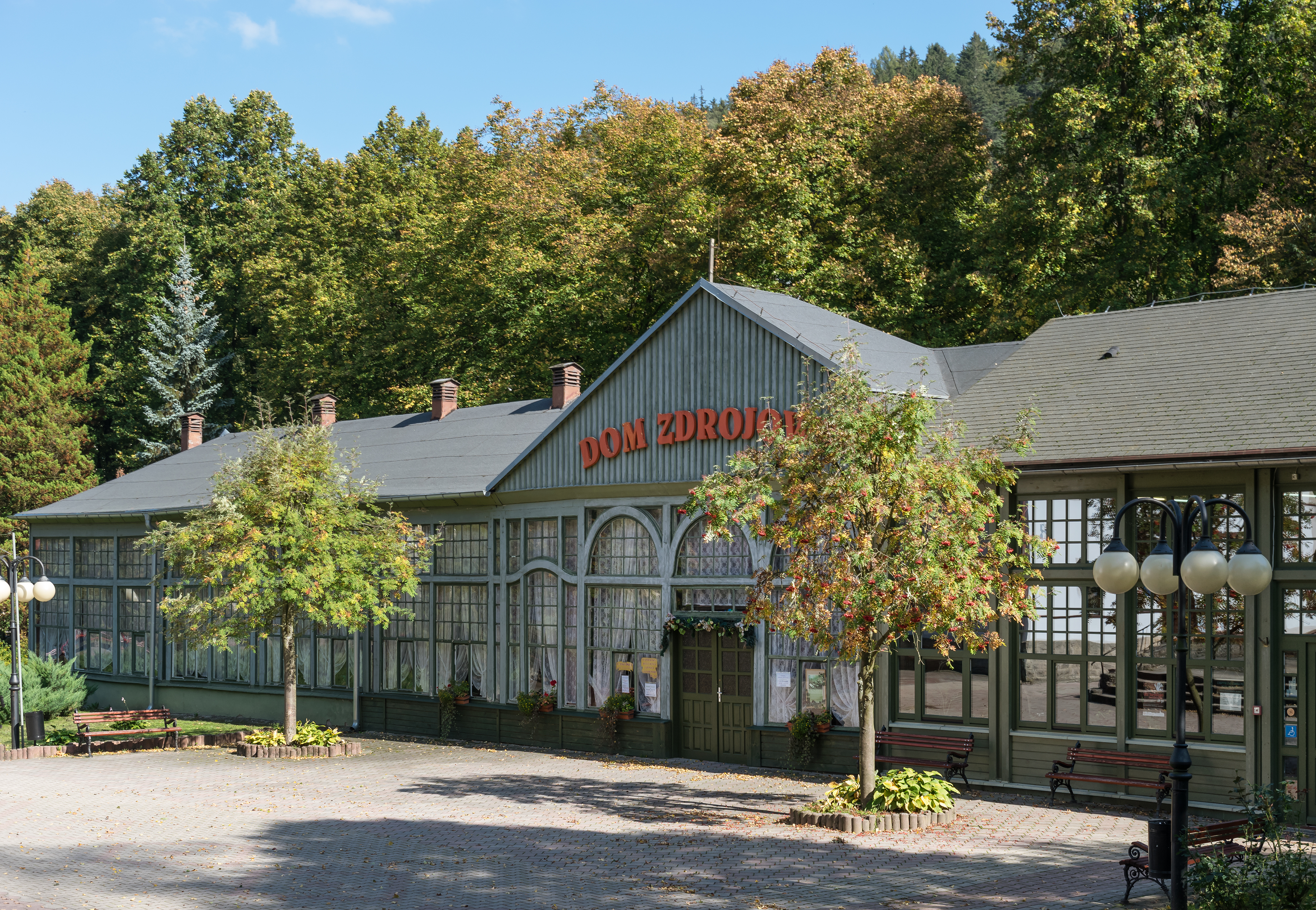 Spa House in Długopole-Zdrój Wikidata has entry Q30046546 with data related to this item.